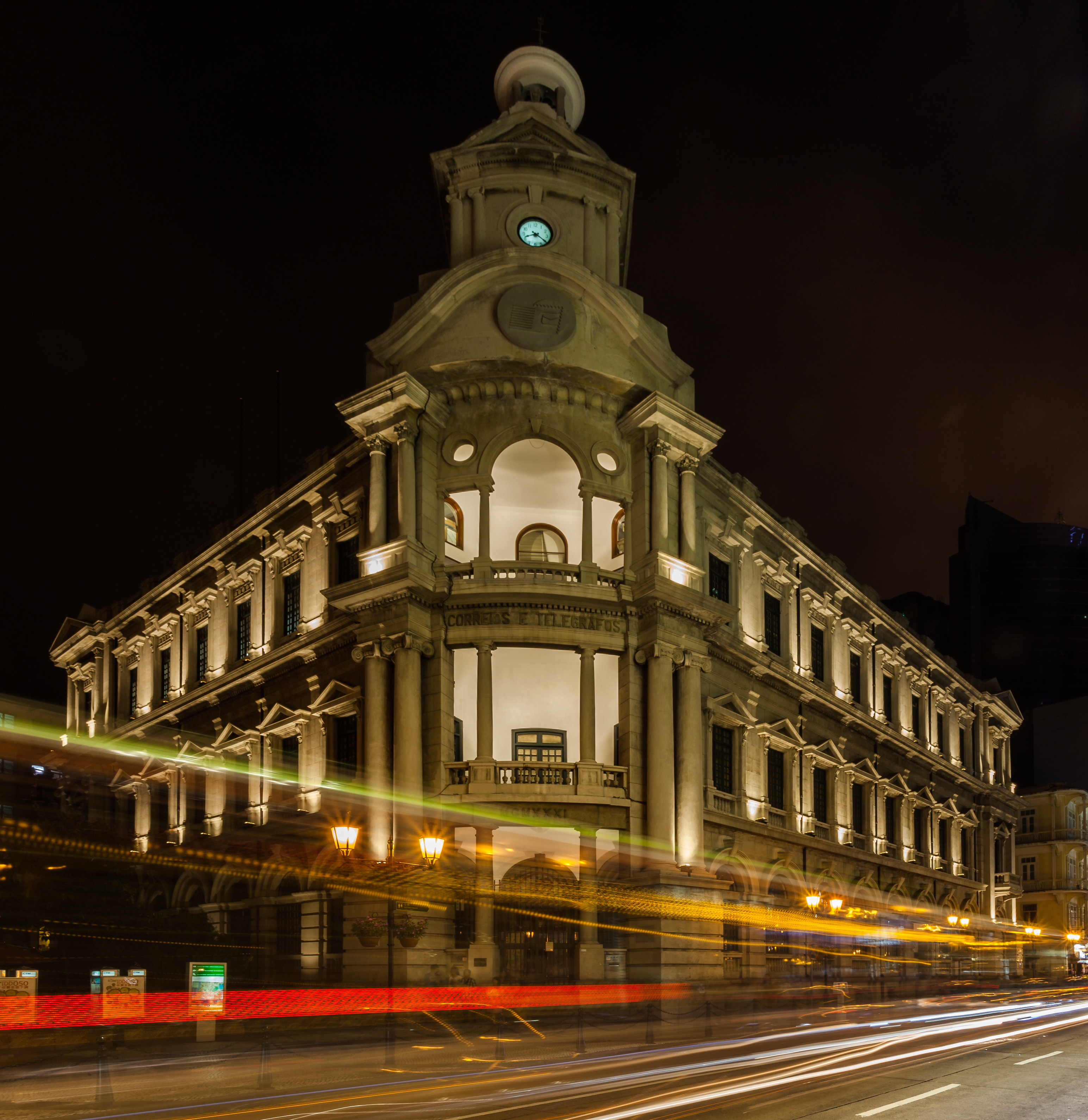 Post Office building, Macau